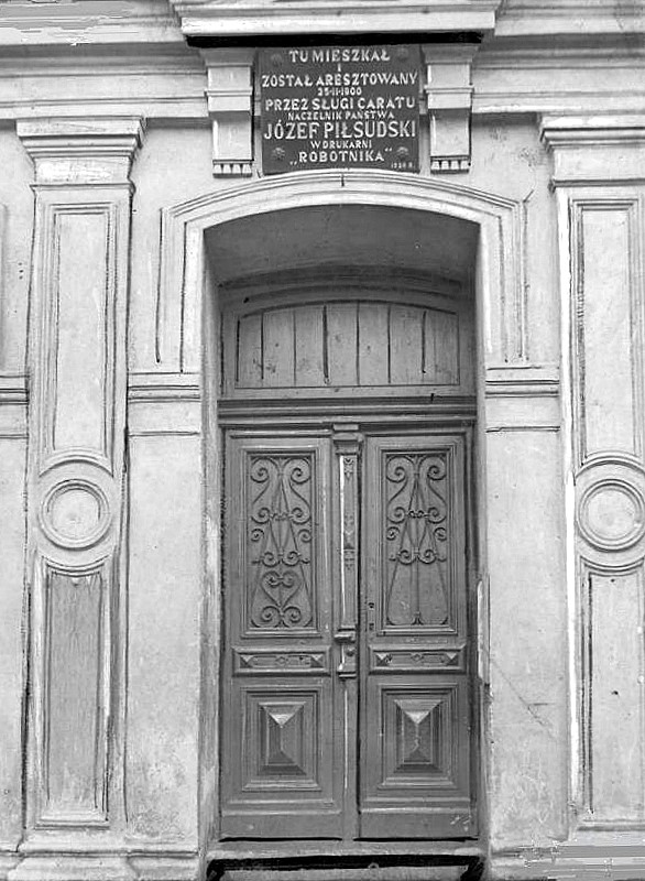 Non existing Józef Piłsudski memorial plaque from 1920 at 19 Wschodnia Street in Łódź